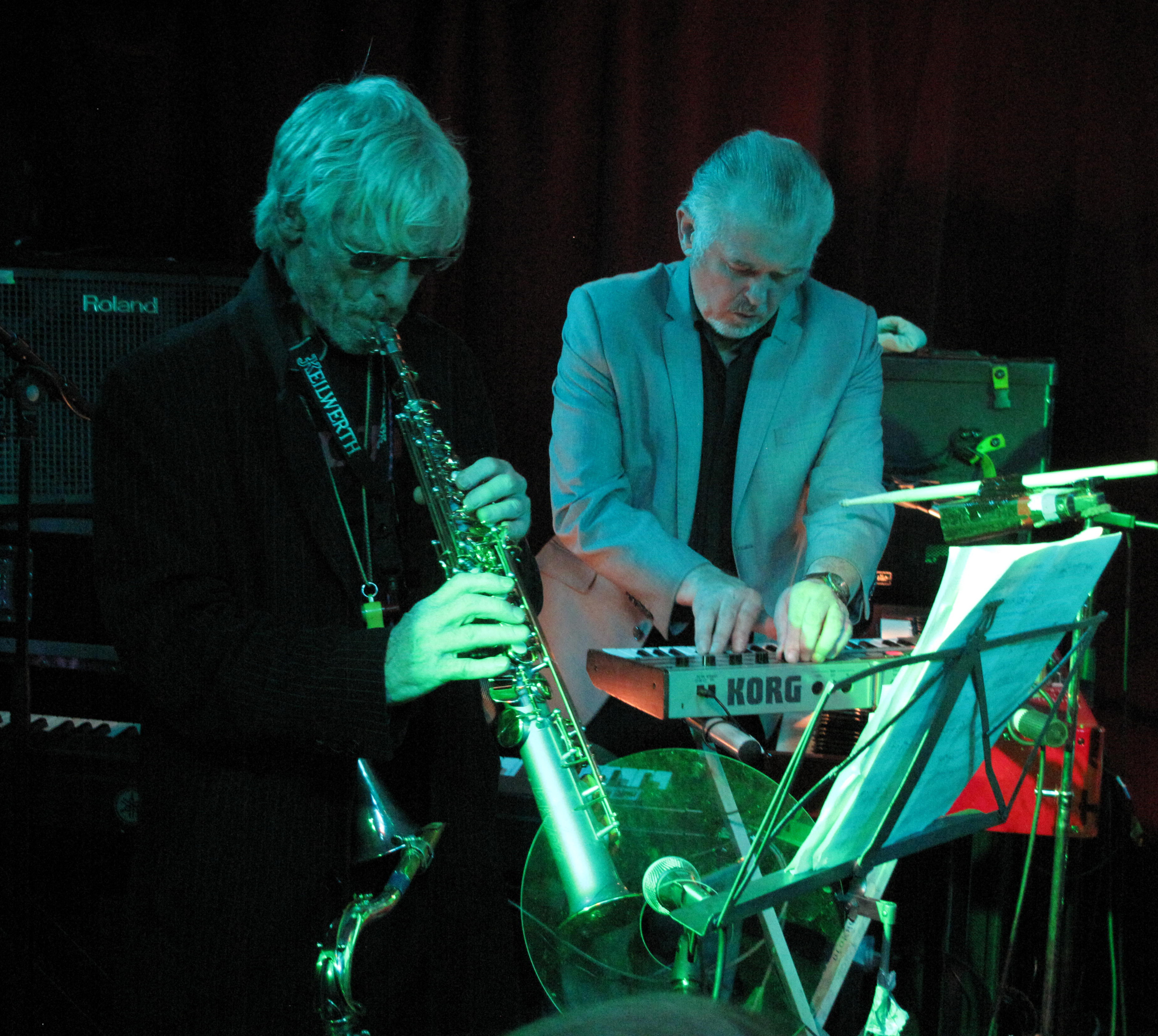 Davey Payne and Mick Gallagher (The Blockheads) at Water Rats, 13.07.11